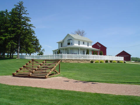 Here is a photo of the bleachers and the house that were featured in the movie Field of Dreams. The bleachers are the same ones Kevin Costner's character Ray put together in 1989. On the top bench on the far right side, the heart with the words "Ray Loves Annie" that was carved into the bench is still visible today. This photo was taken by me in May of 2004.